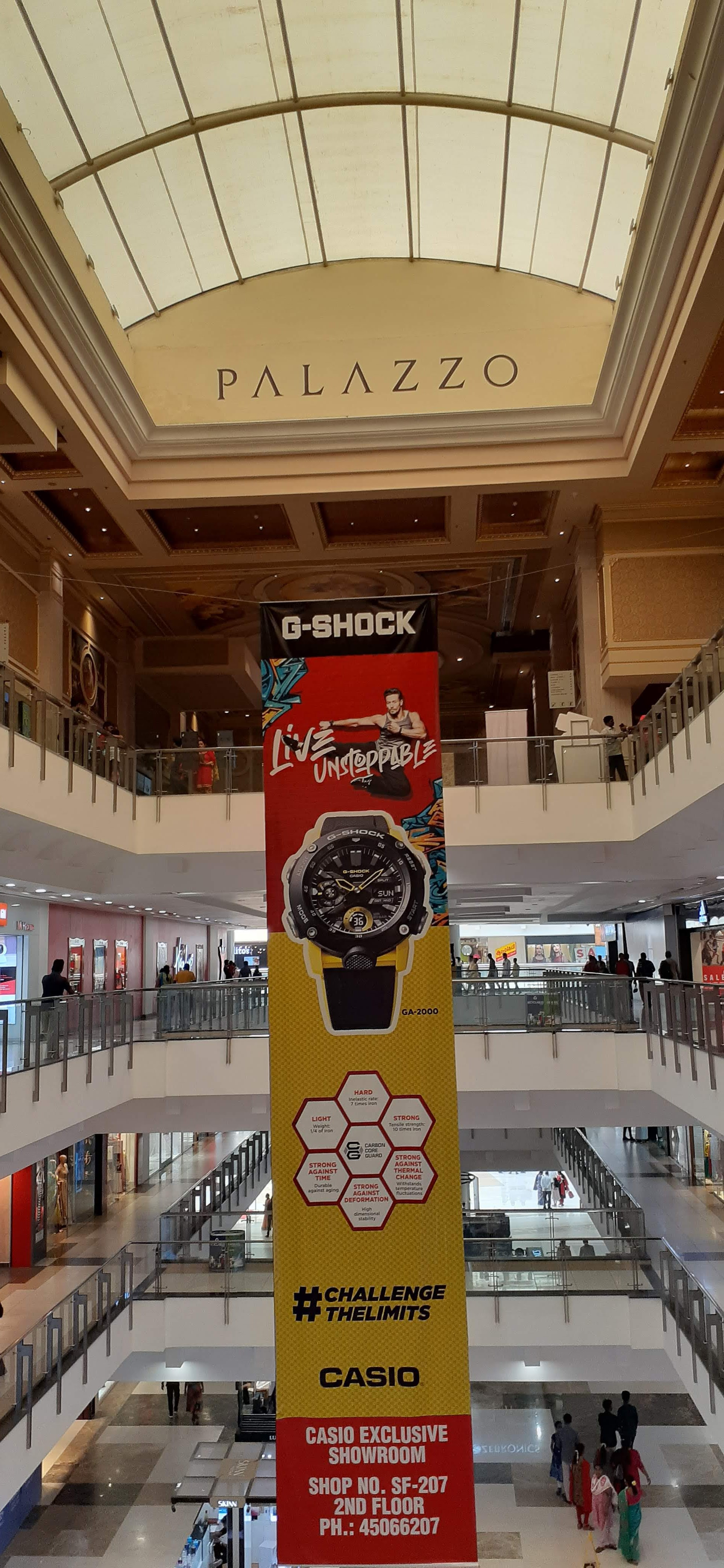 The FORUM VIJAYA, Chennai, Tamil Nadu, India.